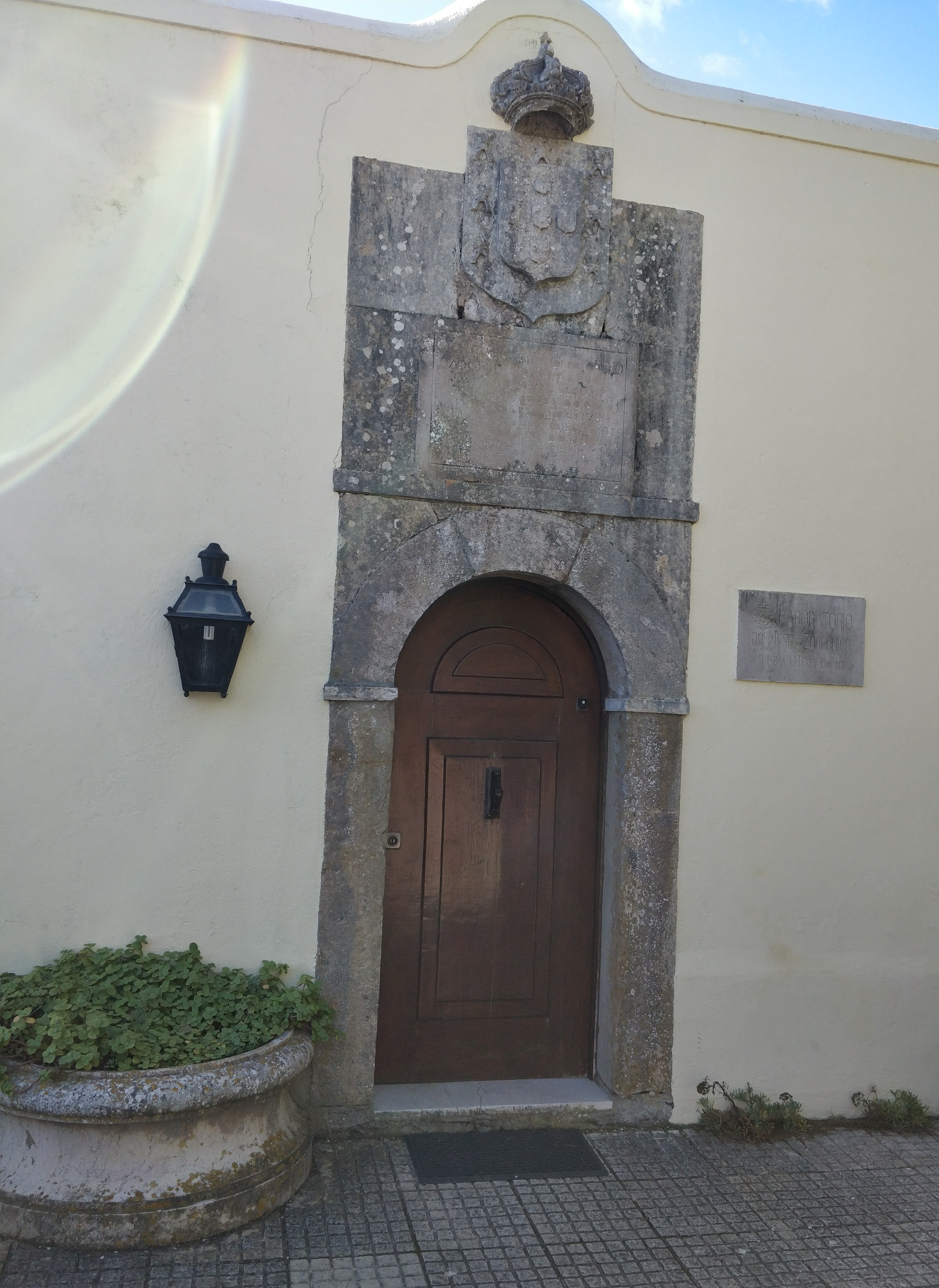 Entrance gate with coat of arms of the fort of Nossa Senhora da Guia in Cascais, Portugal